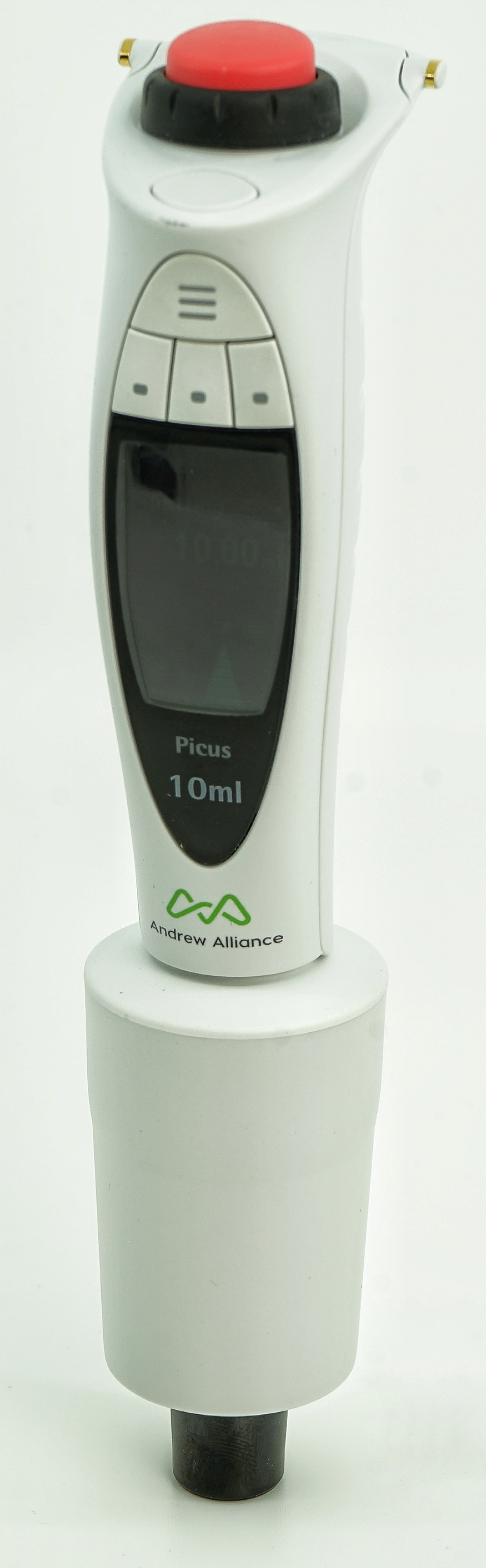 Picture of Andrew Alliance air-displacement electronic pipette. The handle volume range is between 0.5mL and 10mL.